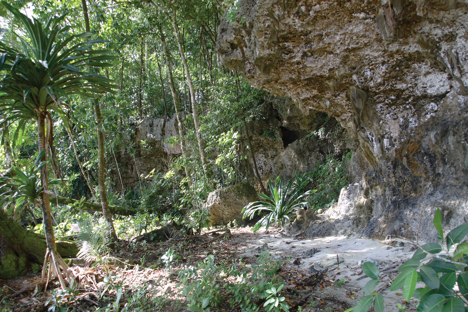 Typical vegetation of coastal karst areas of Mussau Island where several Varanus semotus were observed.